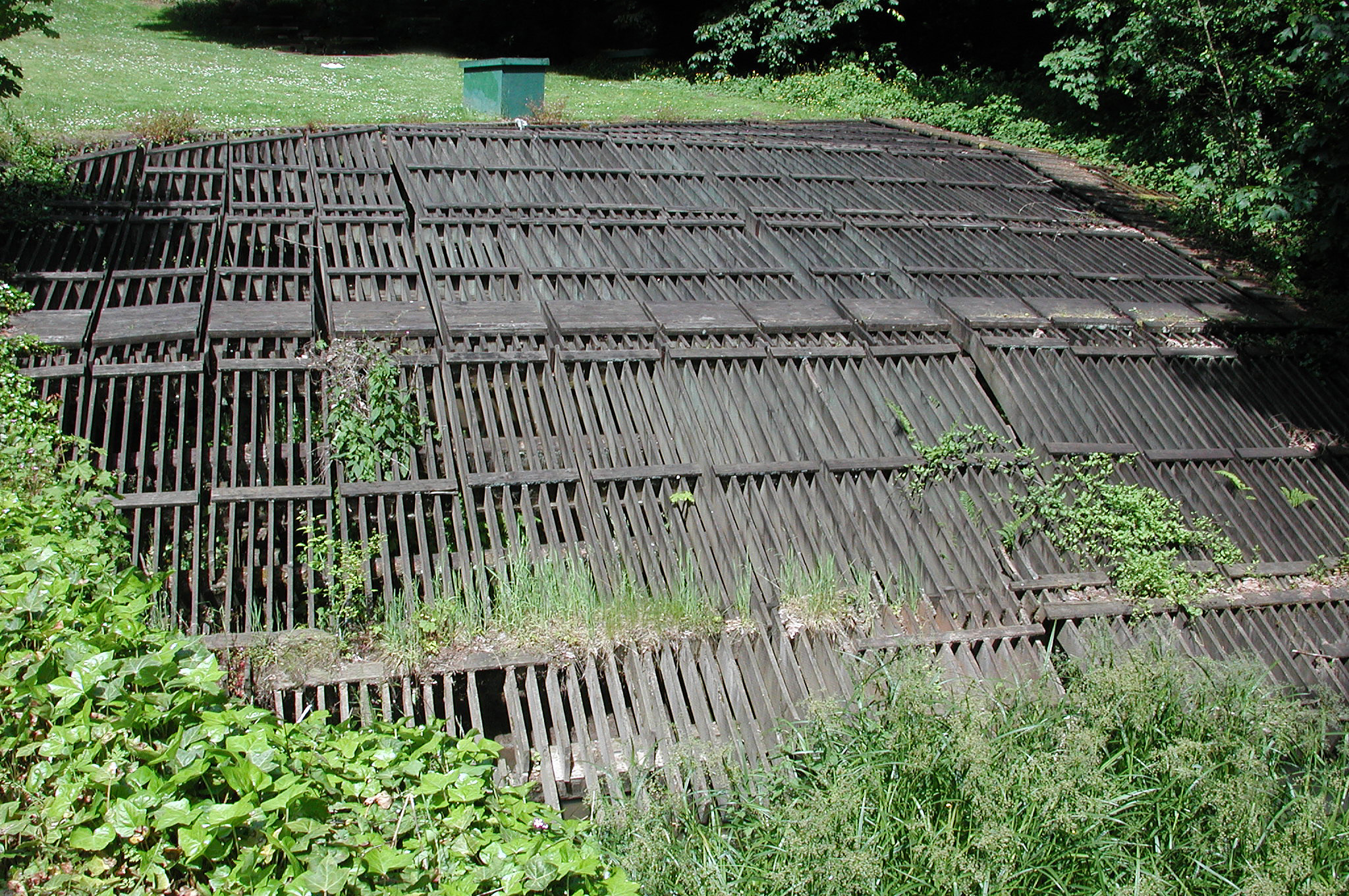 Balch Creek, hidden by grass in the lower right, passes through this trash rack at the lower end of Macleay Park and enters a Portland, Oregon, storm sewer.